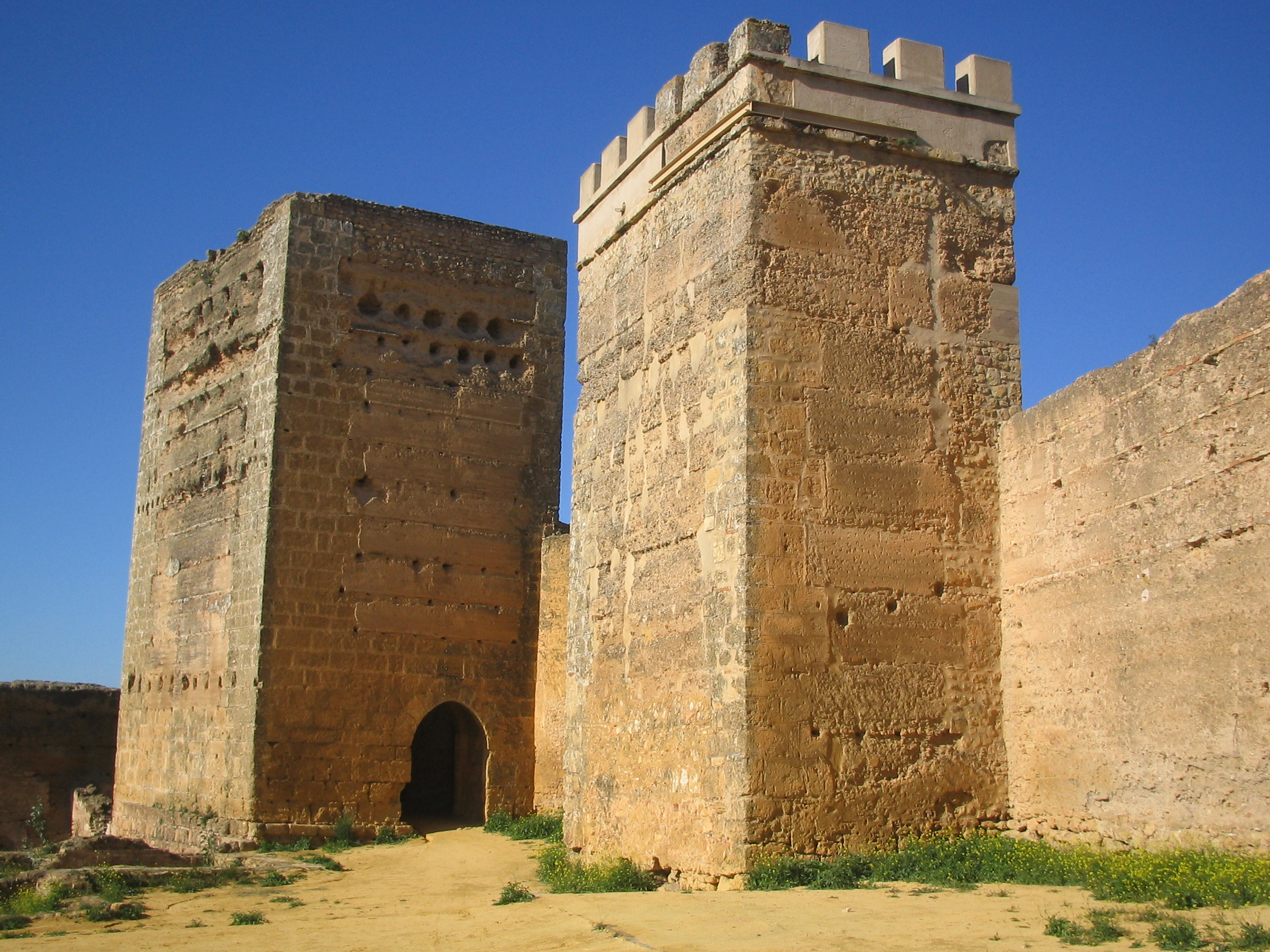 Mozarabic stronghold at the spanish village Alcalá de Guadaíra in the province of Seville.